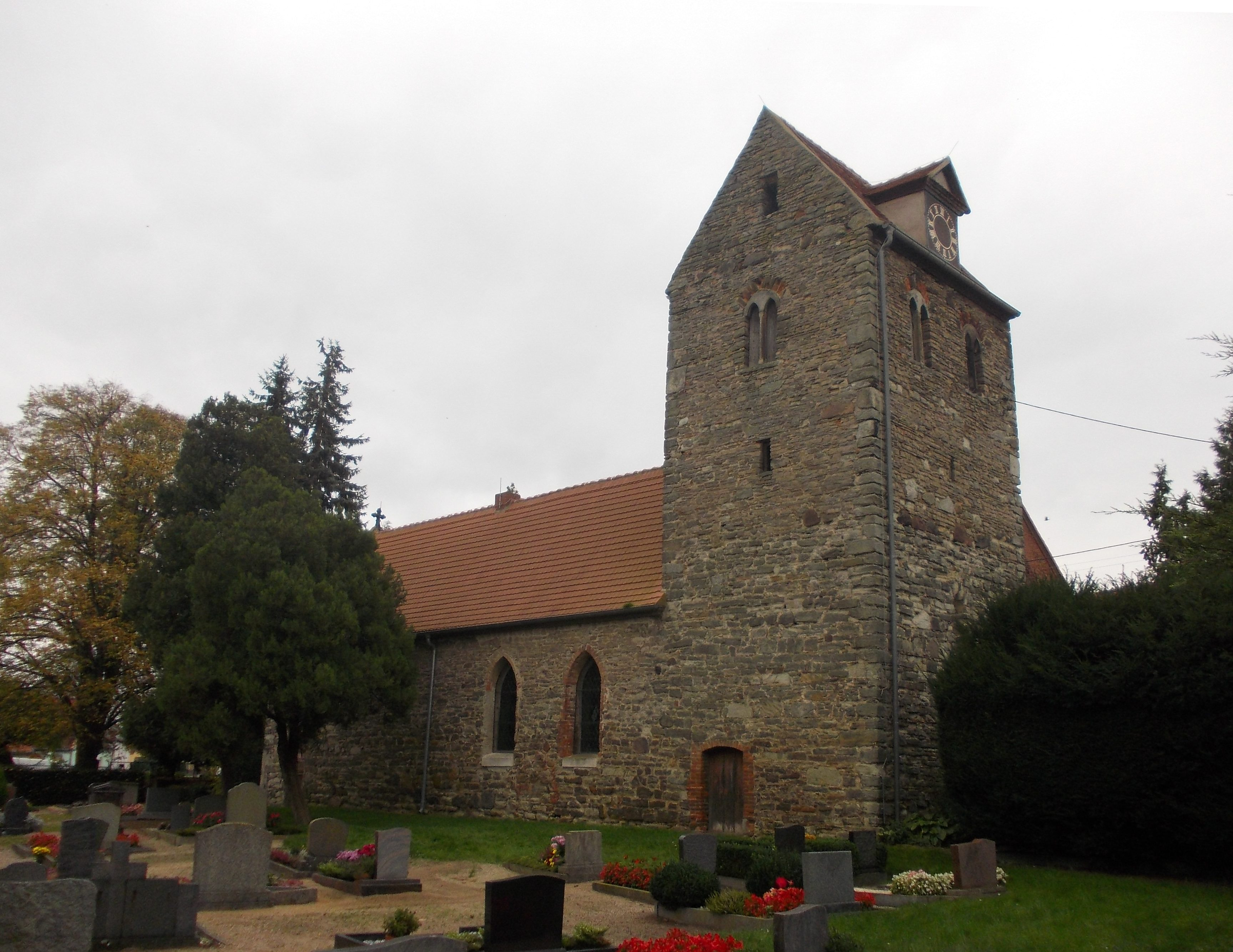 Maxdorf church (Osternienburger Land, Anhalt-Bitterfeld district, Saxony-Anhalt)